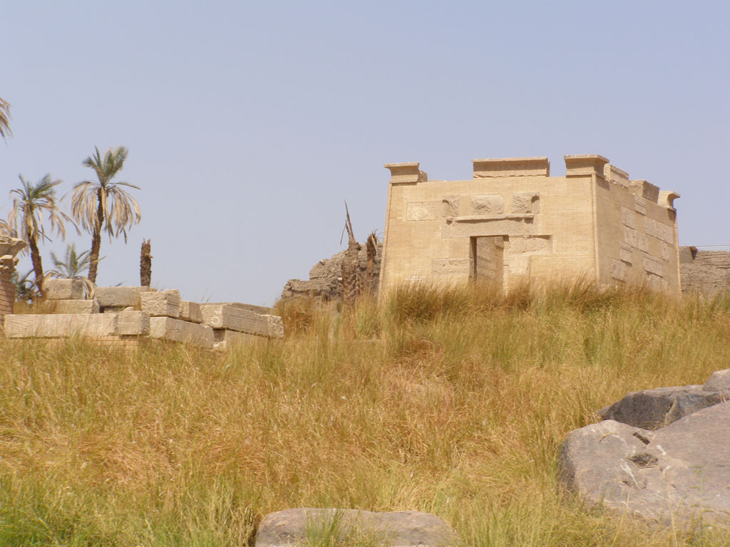 Ruins of the temple of Khnum, southern point of the island of Elephantine. Only the imprint on the ground remains quite visible. Some elements of the temple were re-installed.